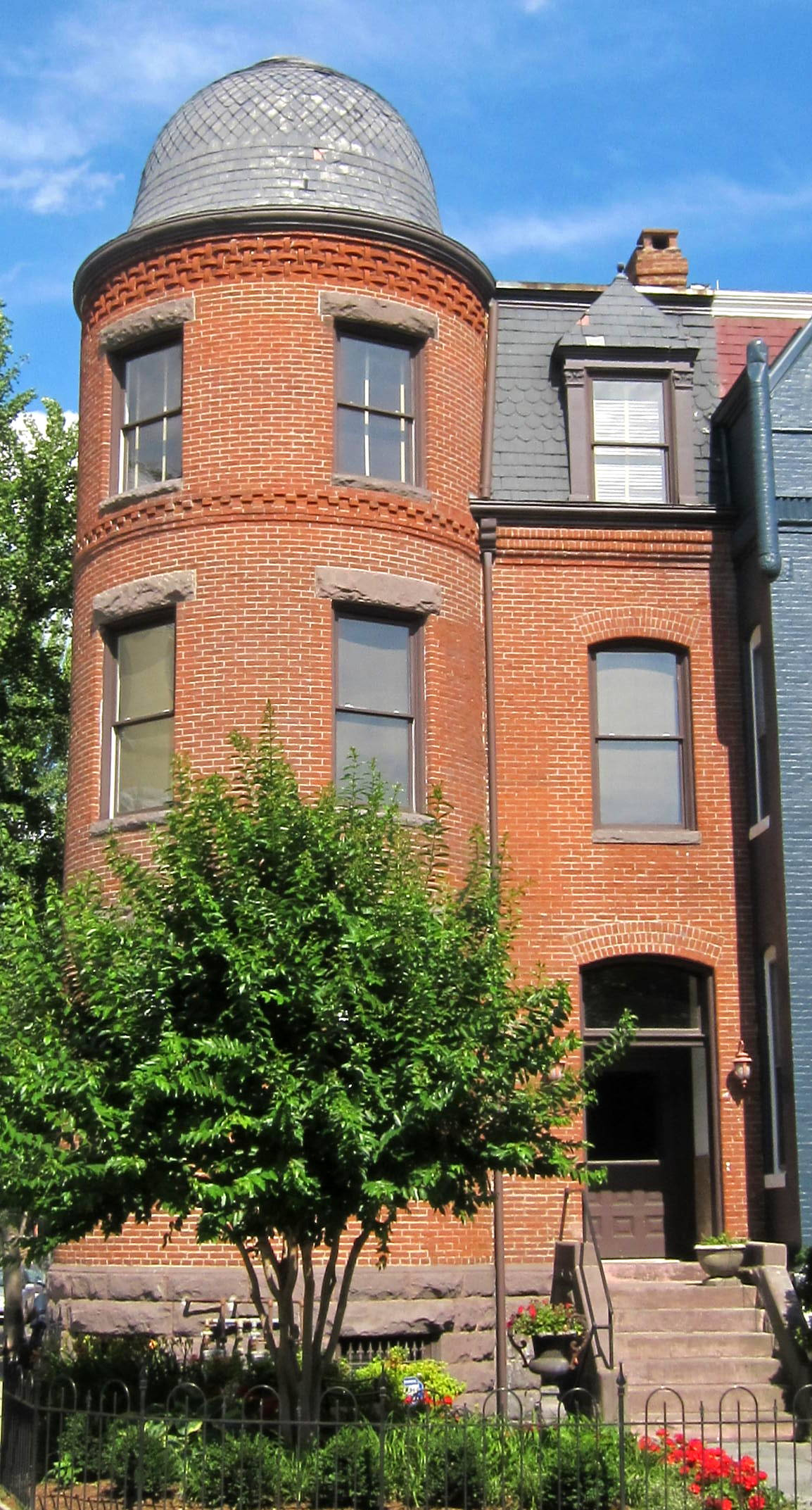 A three-unit condominium located at 1819 19th Street, N.W., in the Dupont Circle neighborhood of Washington, D.C. Built in 1885, the Queen Anne-style row house is designated as a contributing property to the Dupont Circle Historic District, listed on the National Register of Historic Places in 1978. Former occupants include Henry C. Hall and David D. Porter.